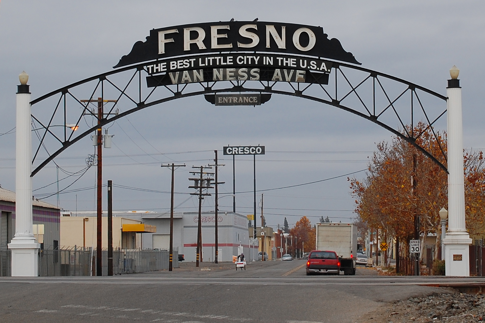 Yoke bracket supporting a sign. Foggy day at the Van Ness Avenue Arch. Fresno, California.